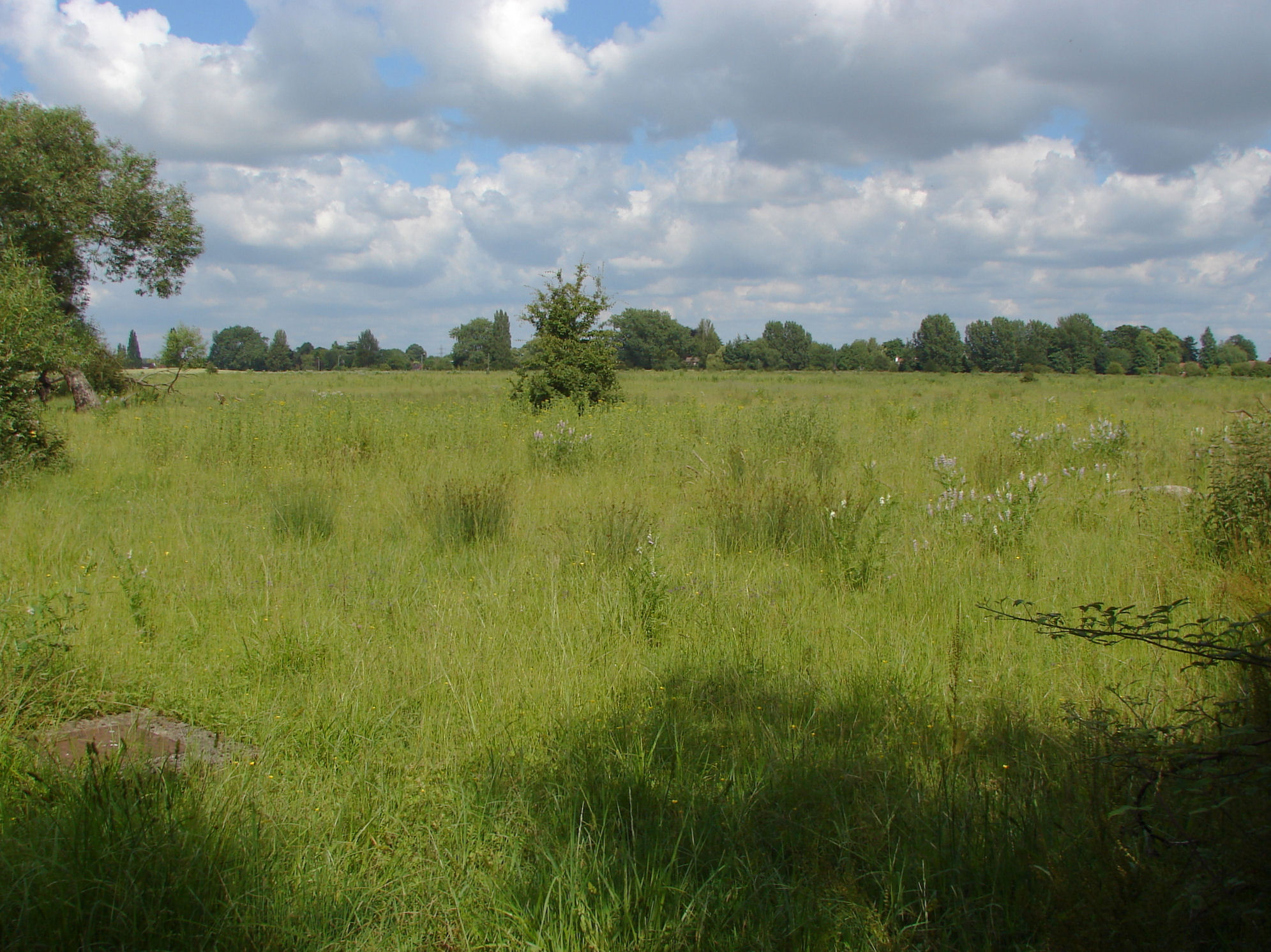 Thames floodplain